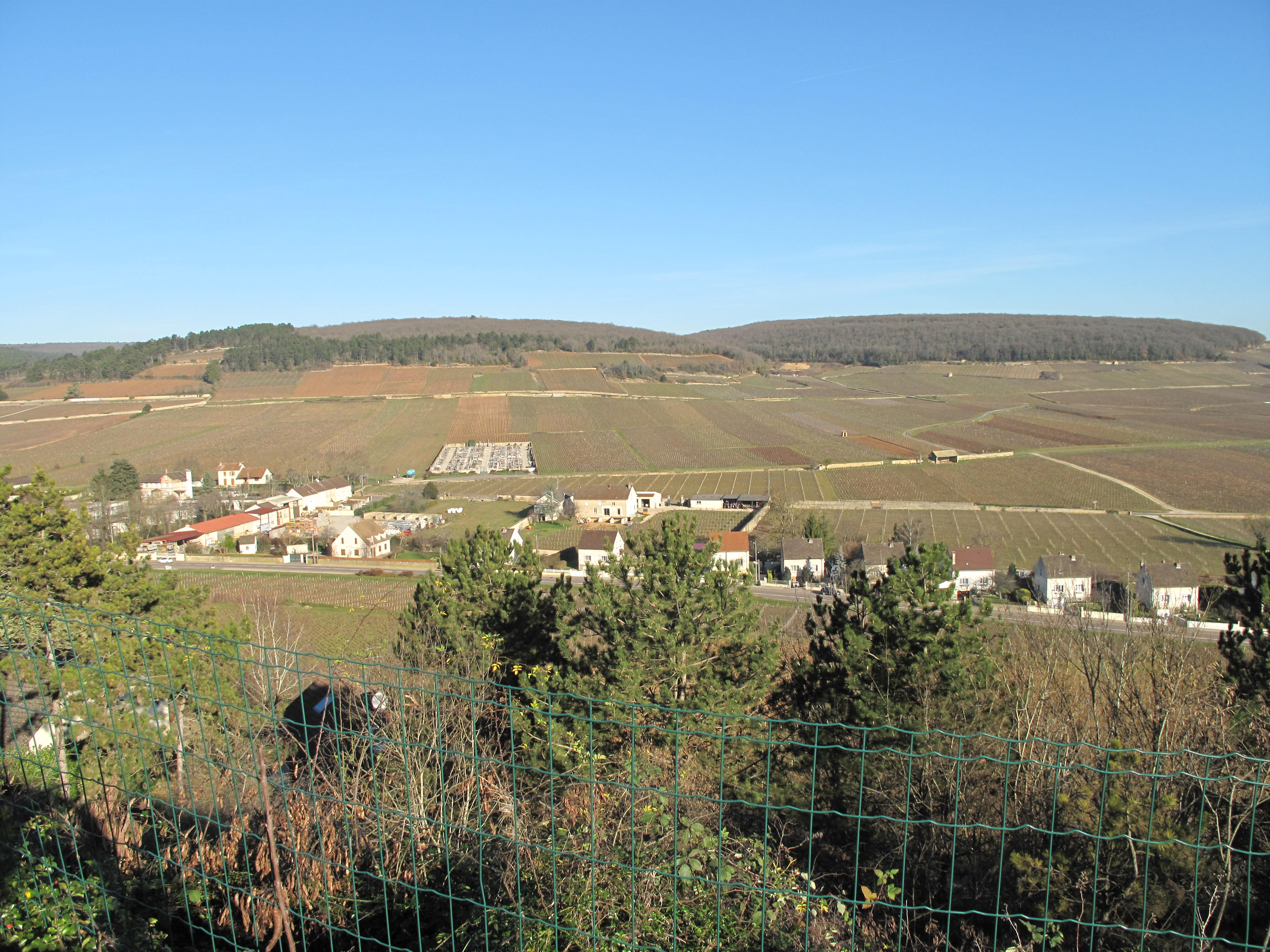 Savigny-lès-Beaune (Côte-d'Or, France) seen from the rest area of the French highway A6.